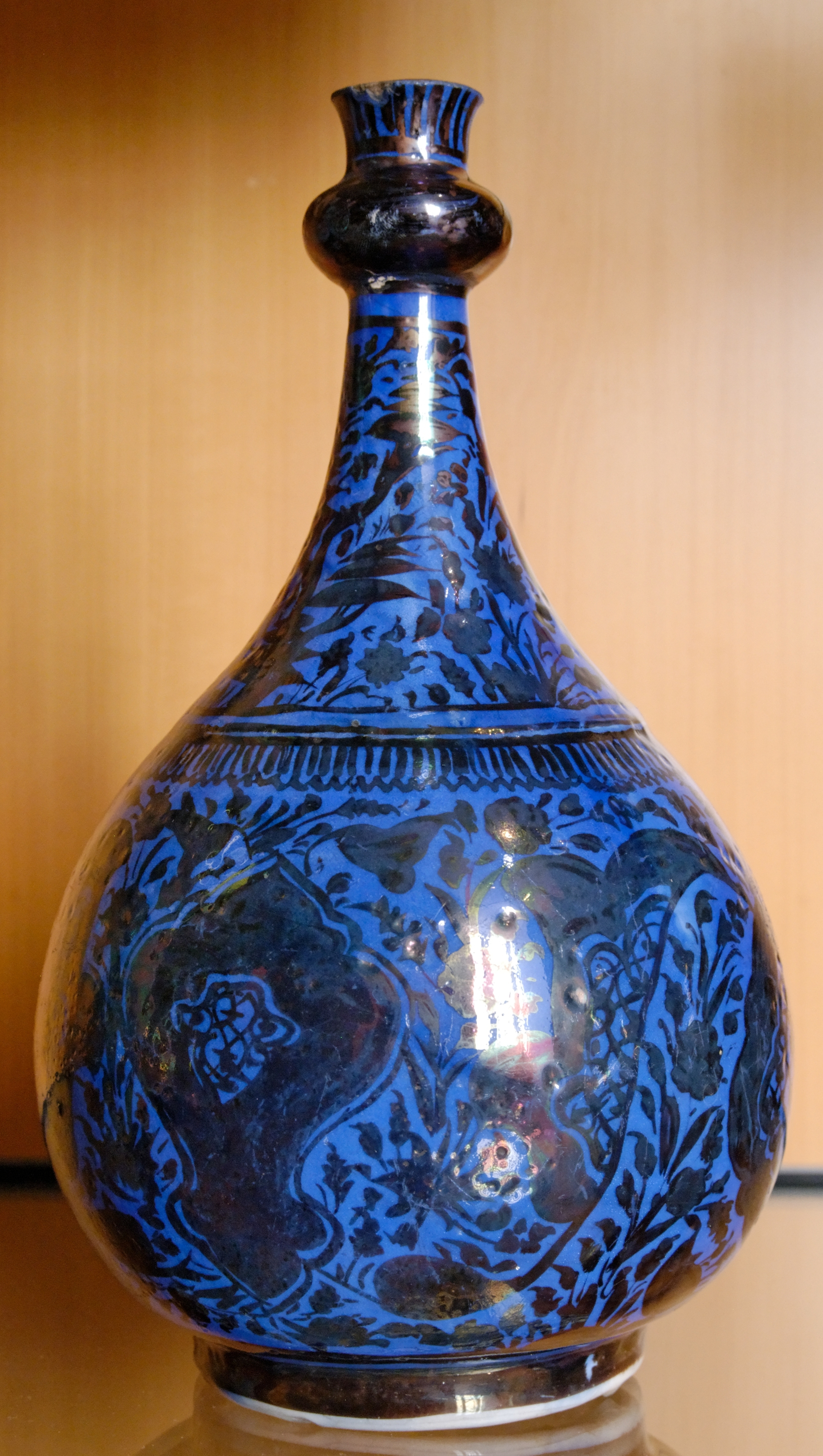 Bottle. Earthenware with metallic lustre decoration over coloured glaze, Safavid art, second half of the 17th century.